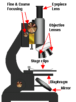 Diagram of a microscope. Drawn by Theresa knott 15:43 Mar 27, 2003 (UTC) The drawing tools that come with Microsoft Word were used to create this diagram, which was then cut and pasted into Paint Shop Pro, for cleaning up and converting to .png format. User:Heron then copied the image back into paint shop pro and corrected a spelling mistake. See How to draw a diagram with Microsoft Word for a short tutorial on how to draw diagrams like this. Hình:Microscope diagram.png